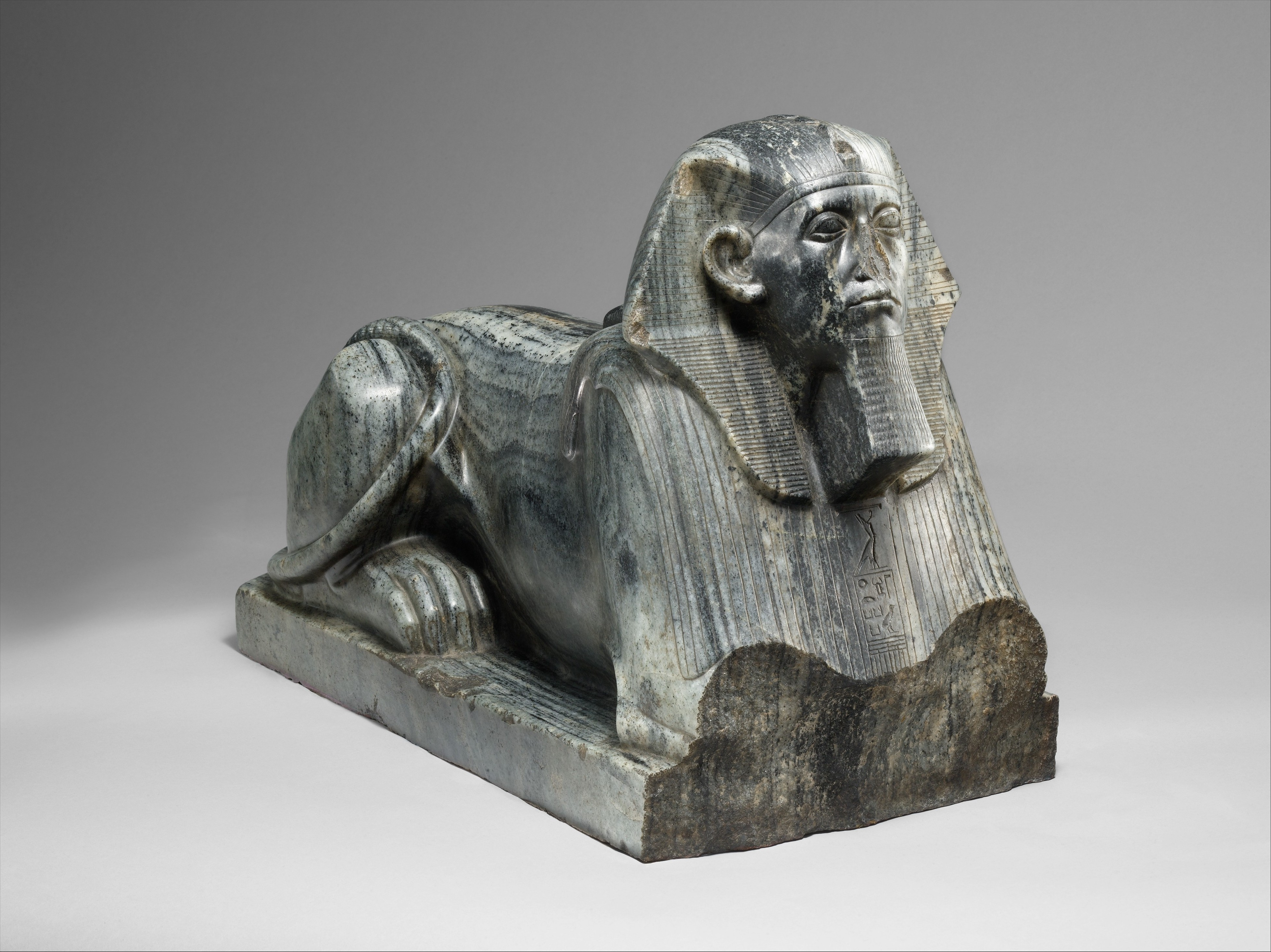 Sphinx, Senwosret III